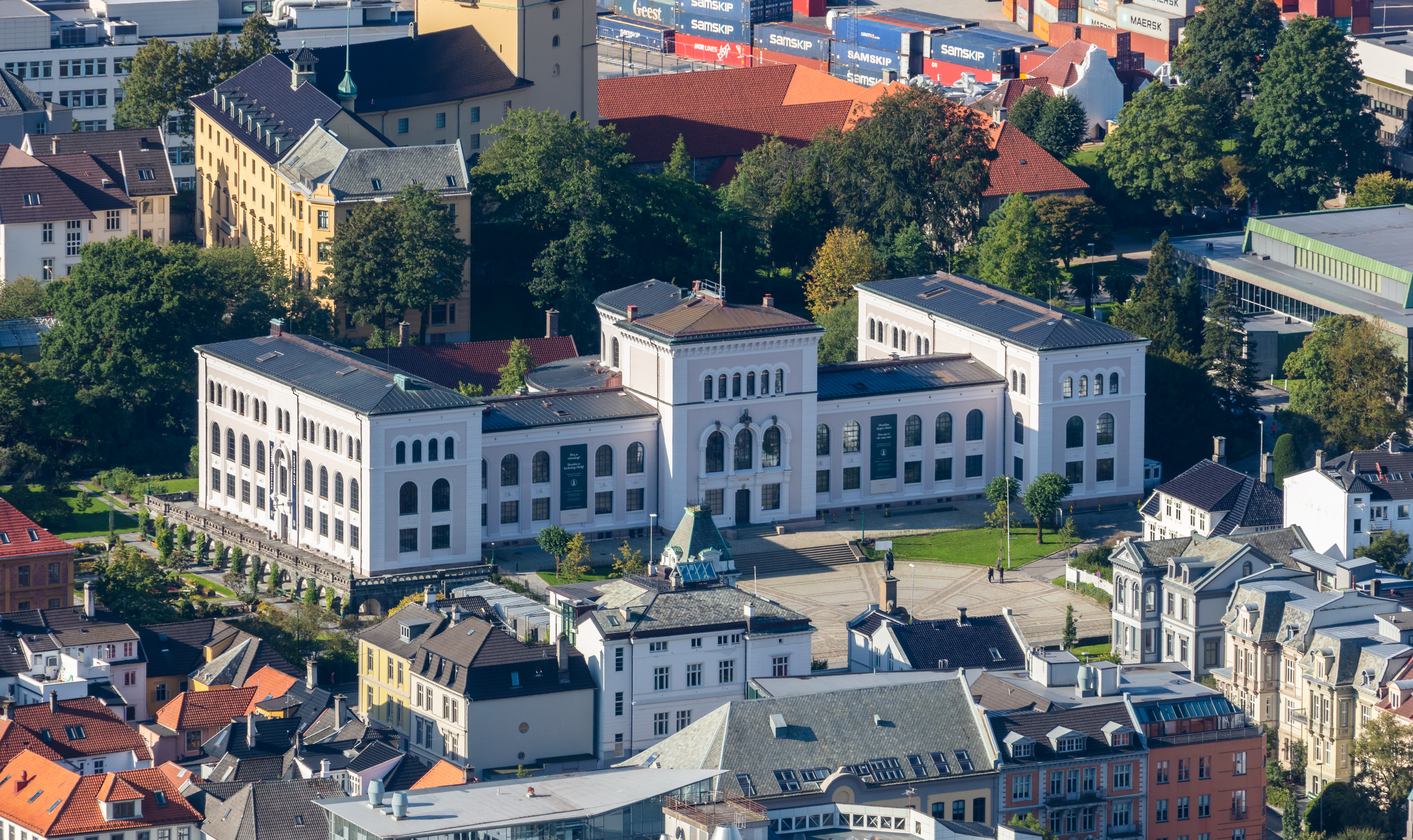 View of the University of Bergen from Mount Fløyen, Bergen, Norway